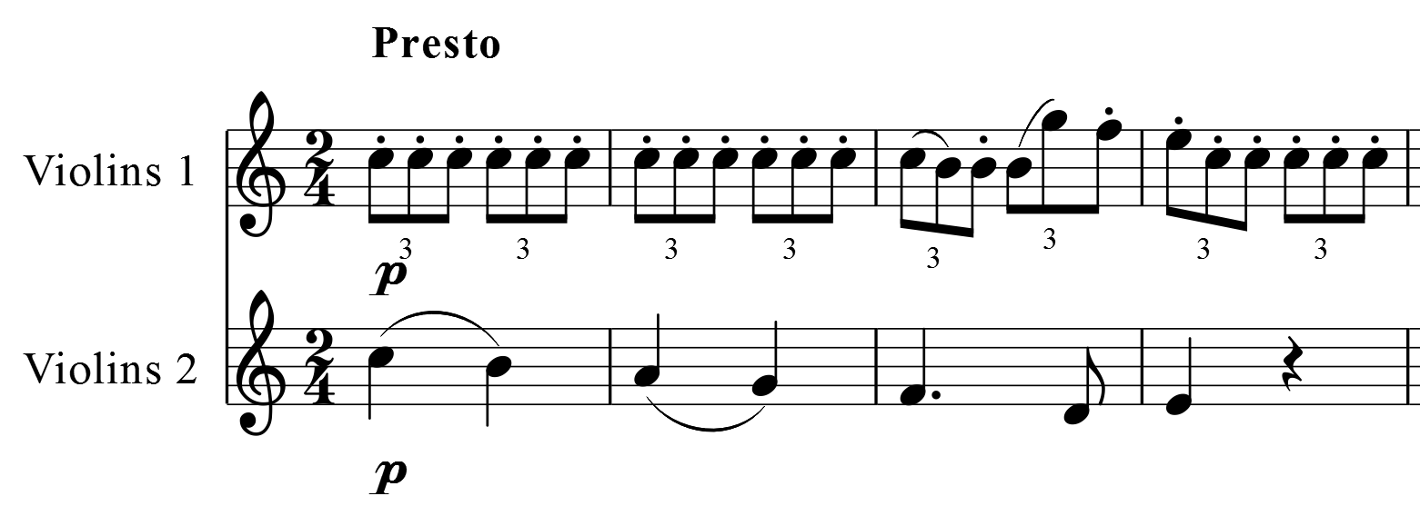 Joseph Haydn, Symphony No. 41, last movement, bar 1-4